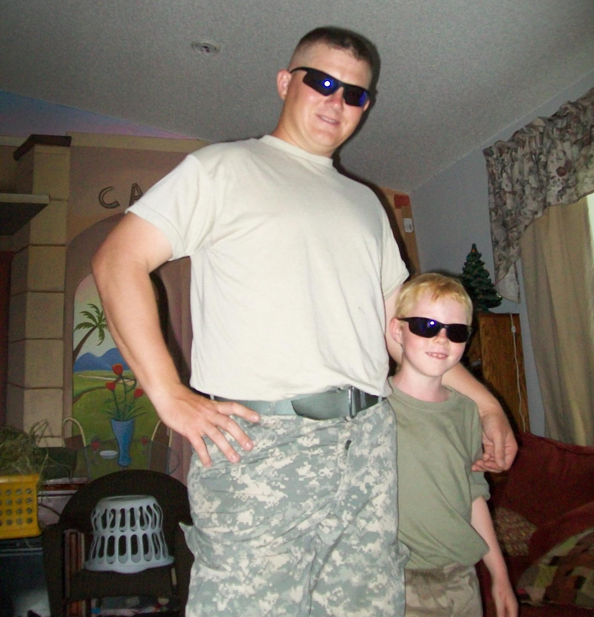 Walter Singleton with son, Aiden